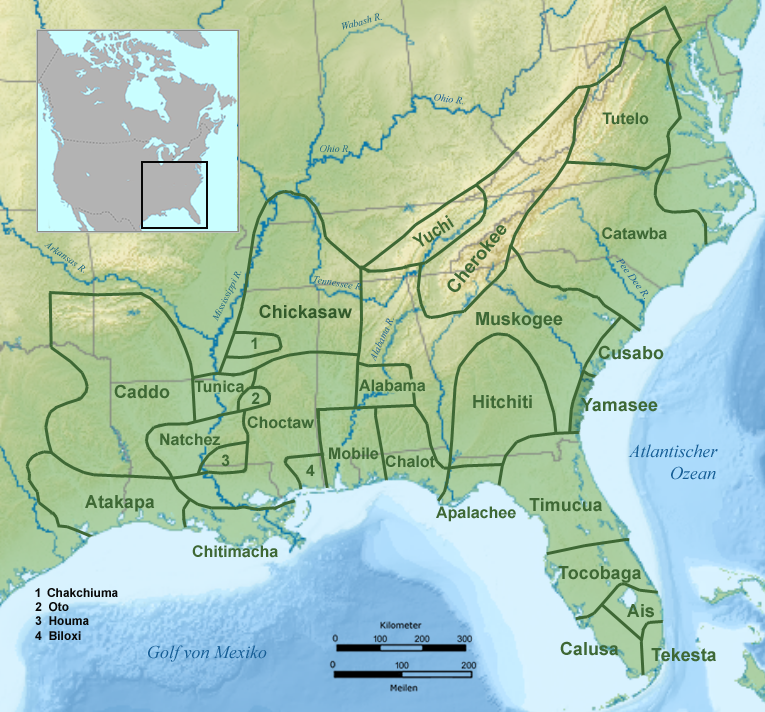 Tribal territory of Yamasee during seventeenth century